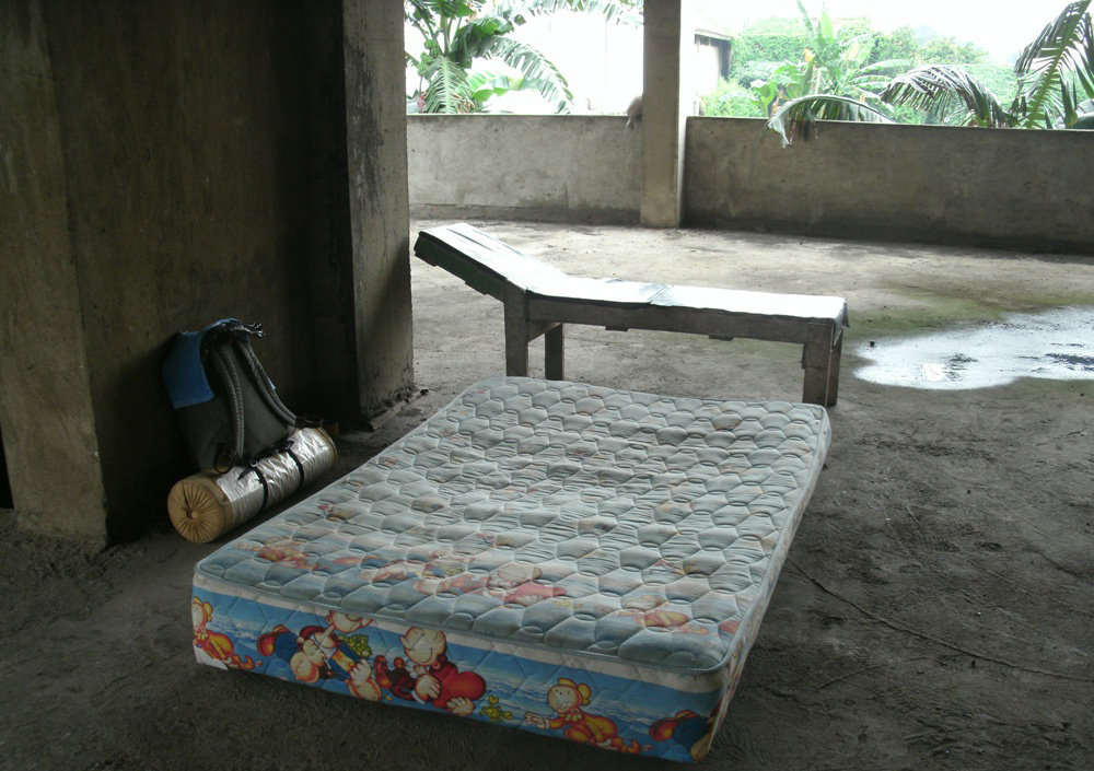 Photo from the book "Six months on the islands ... and countries" ISBN 978-5-9908234-0-2